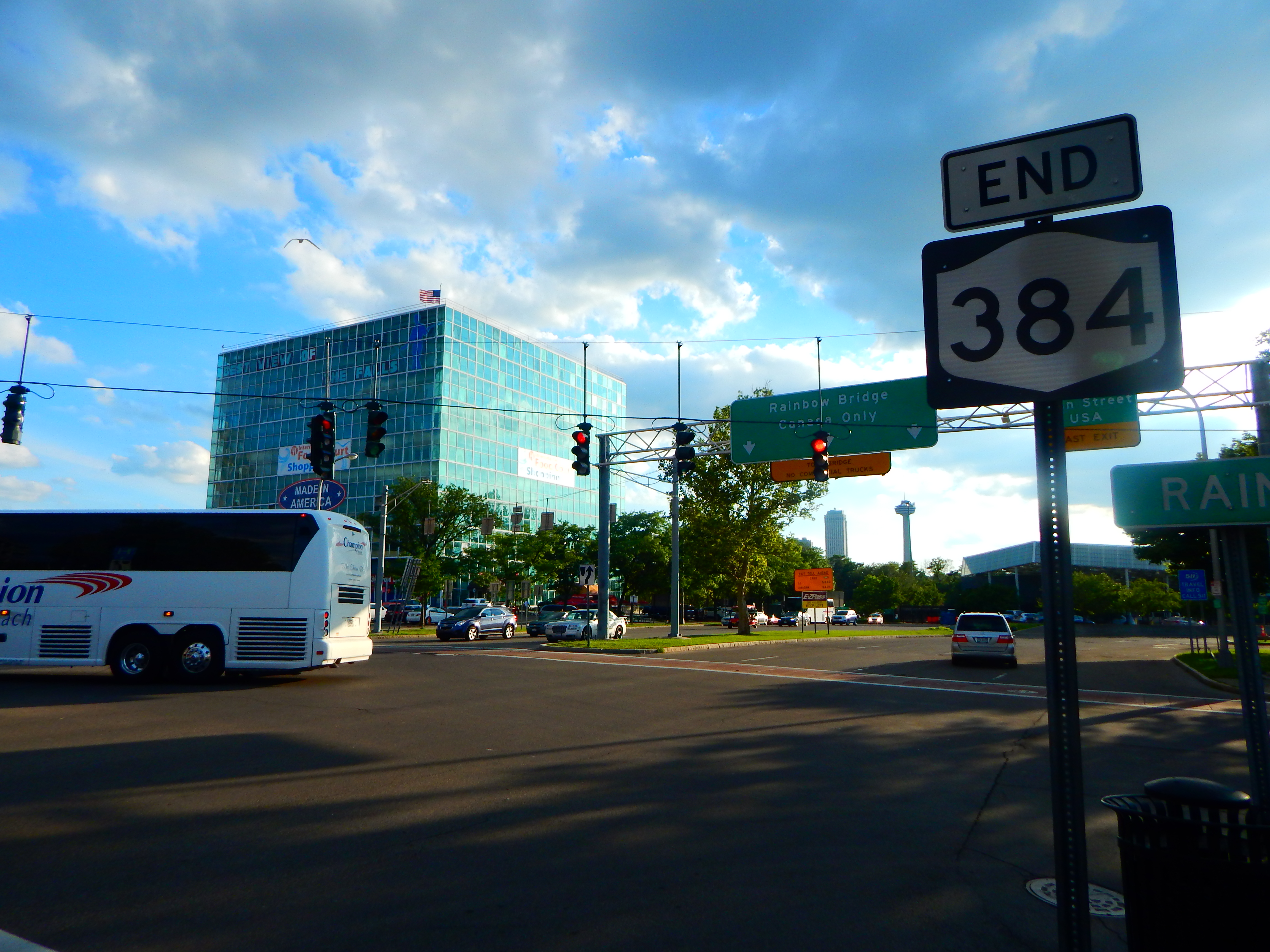 Route 384 in Niagara Falls, New York.